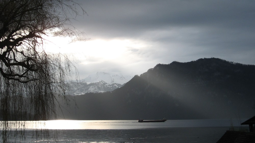 Freight boat type "Ledischiff" as seen on Swiss lakes; here on Lake Lucerne in front of the Bürgenstock.